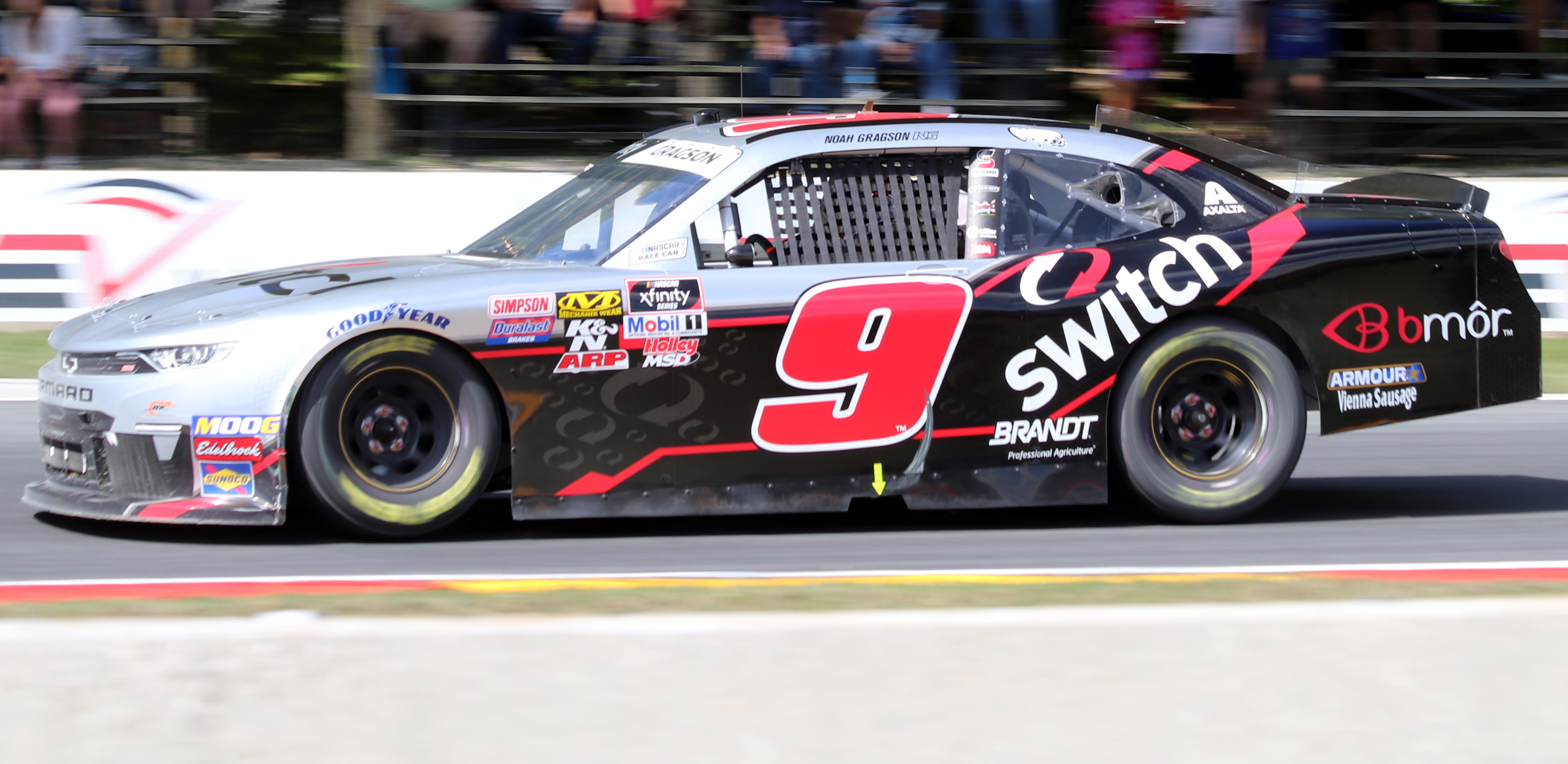 The #9 Chevrolet Camaro of Noah Gragson at the NASCAR CTECH 180.